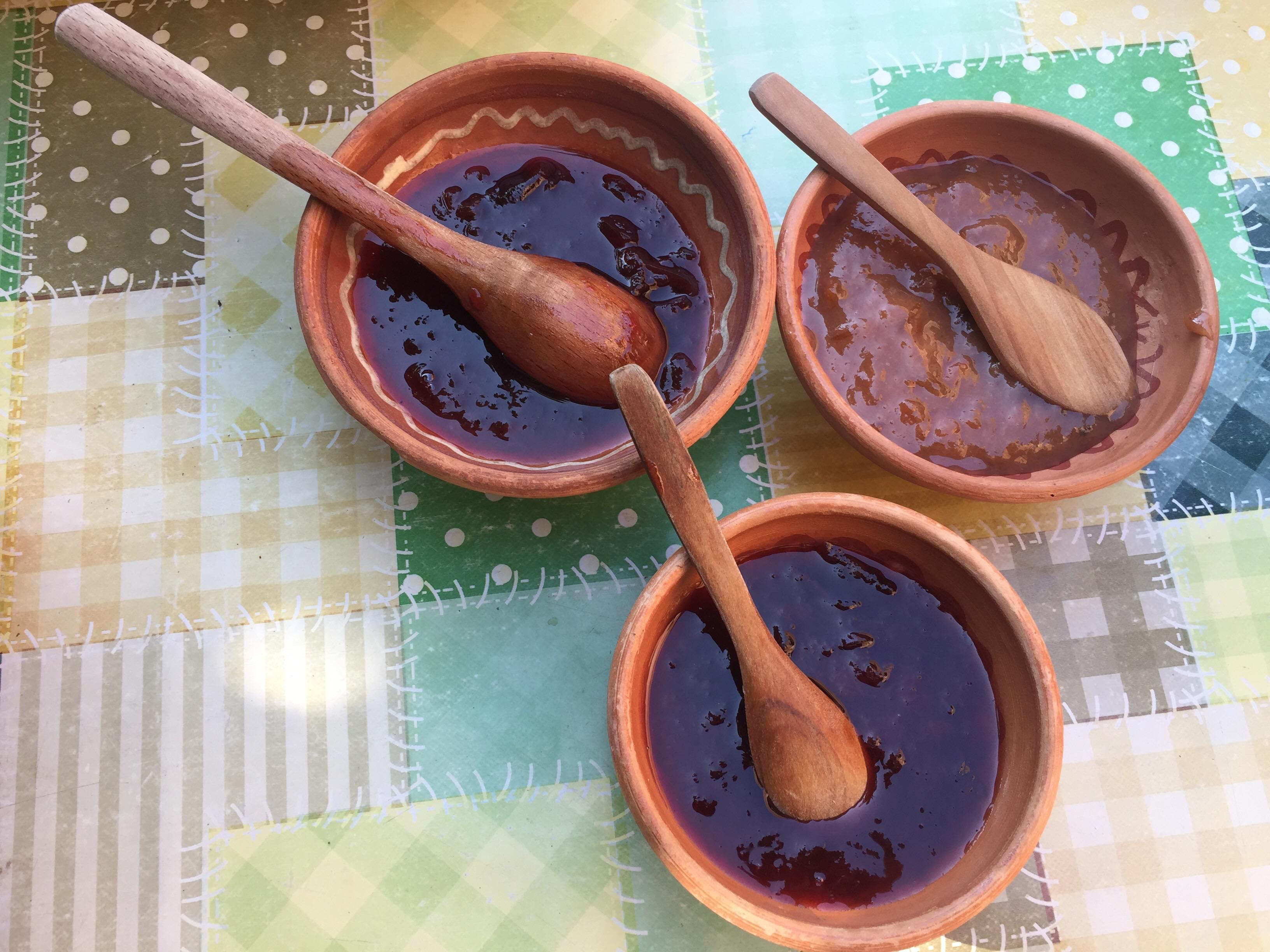 Jam of blackberry